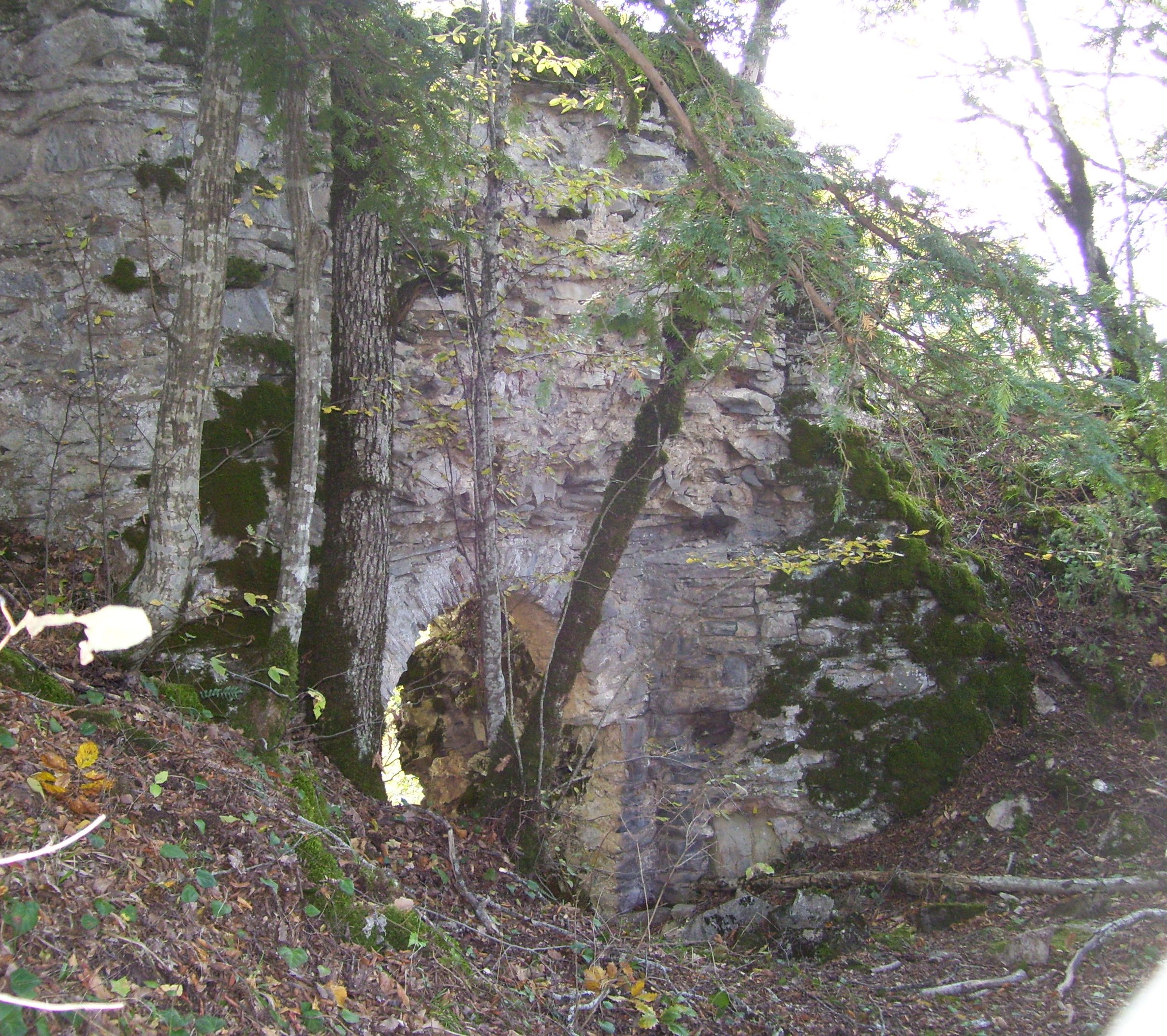 Cinli qala